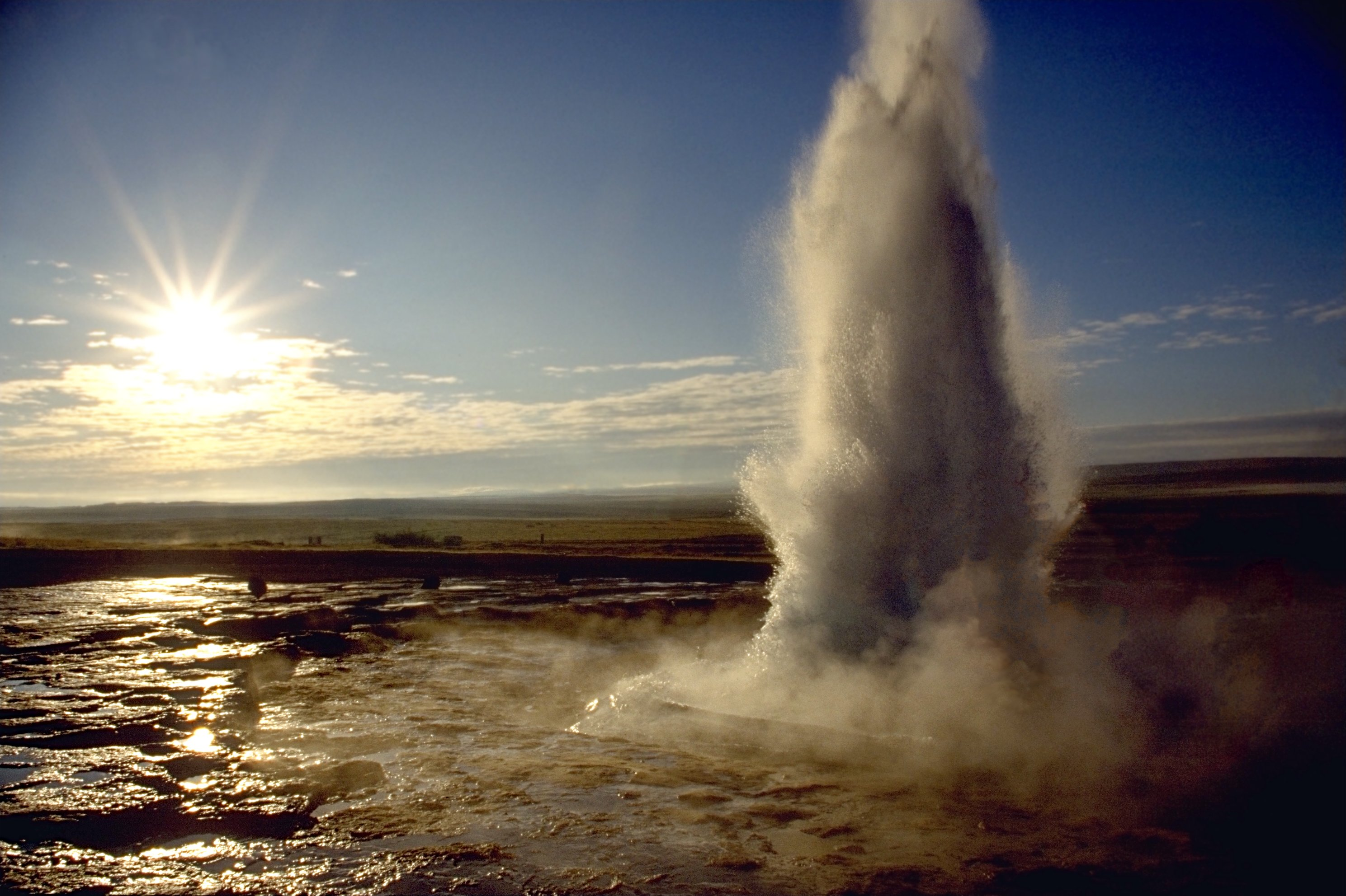 Eruption of Strokkur close by.